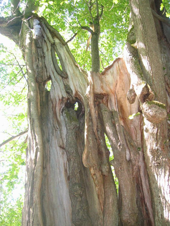 Tilia cordata Najevska lipa (lime tree), with symbolic value to Slovenia photo:Ziga 21:29, 12 August 2006 (UTC)